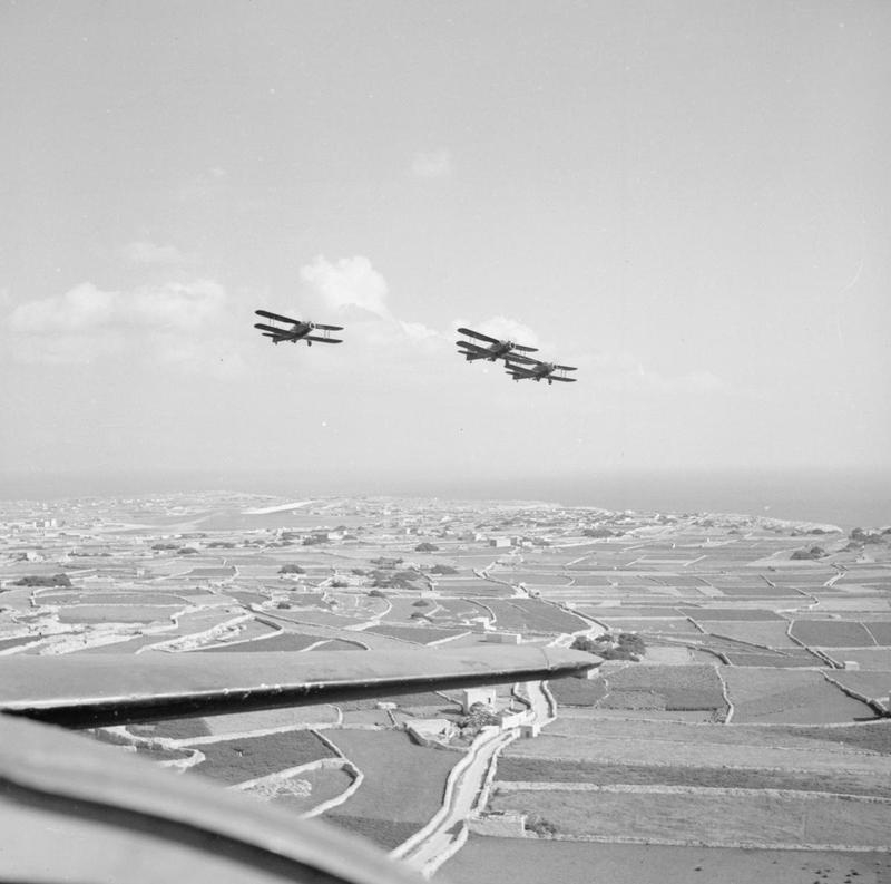 Albacores Over Malta. Fleet Air Arm Station, Malta, Gc. Formation of Fleet Air Arm Fairey Albacores, with Malta in the background.